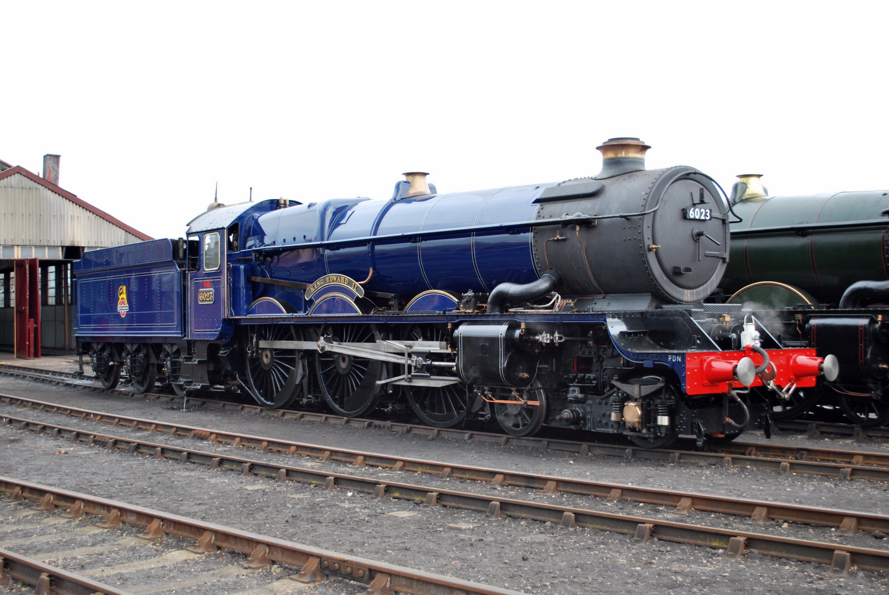 GWR "King" Class 4-6-0 No.6023 King Edward II newly restored in 1949 BR Caledonian Blue livery looking superb at Didcot, 4/11.